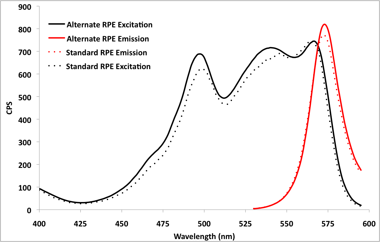 Excitation and emission spectra from two different species of r-phycoerythrin-producing algae.